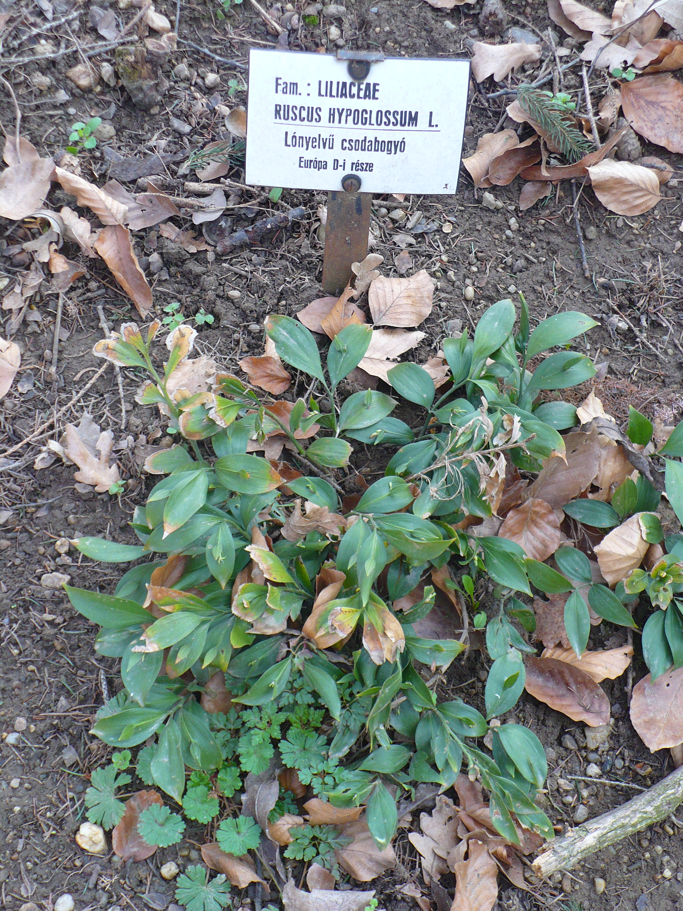 Ruscus hypoglossum in the Chernel arboretum, Kőszeg, Hungary